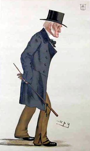 Caricature of Sir Harry Verney Bt MP. Caption read "Bucks".